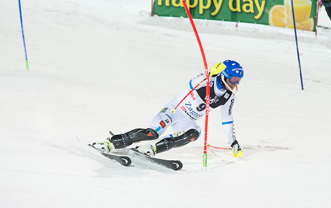 André Myhrer, alpine skier from Sweden, at Zagreb race (06-01-2015)